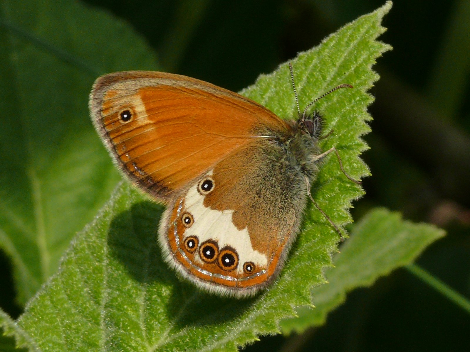 Pearly Heath, Munich (district), Germany